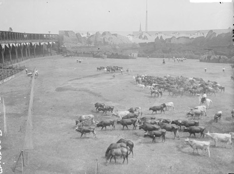 West Side Park as configured for Buffalo Bill's Wild West Show. The Cubs abandoned this park for Weeghman Park (now Wrigley Field) after the 1915 season.